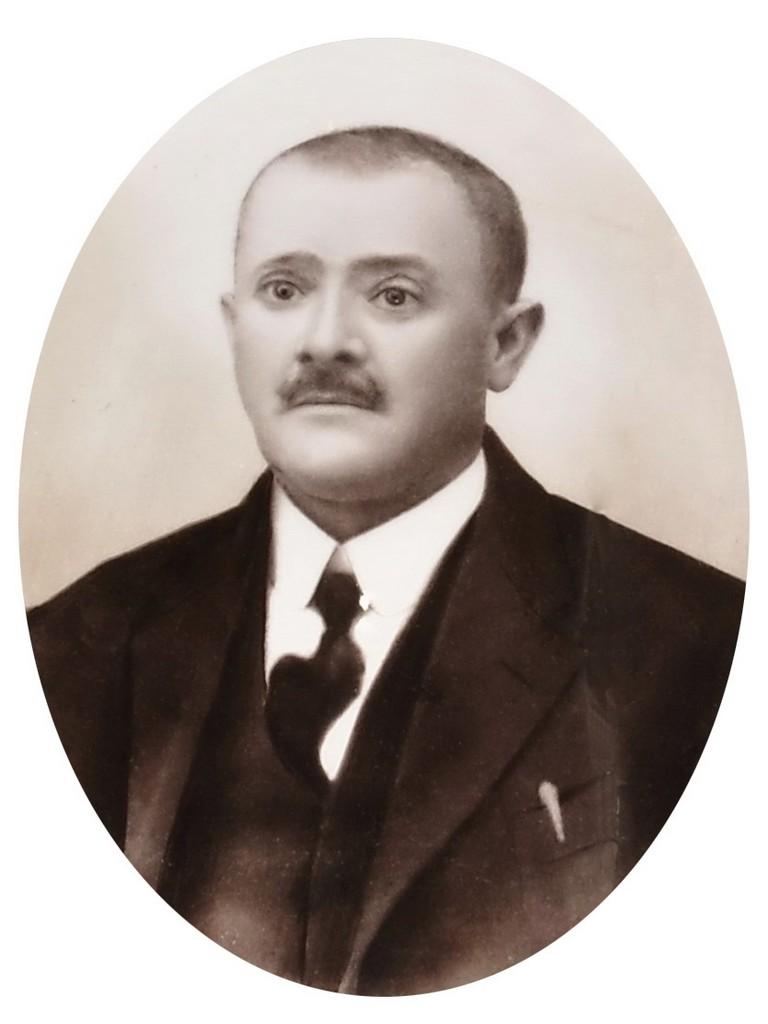 Dr Avram Farkić, portrait.